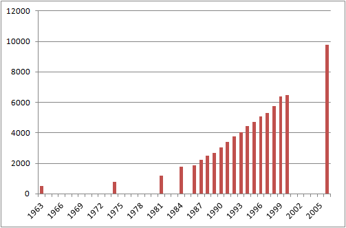 Chart of Bald Eagle Breeding Pairs in Lower 48 States 1963 to 2006